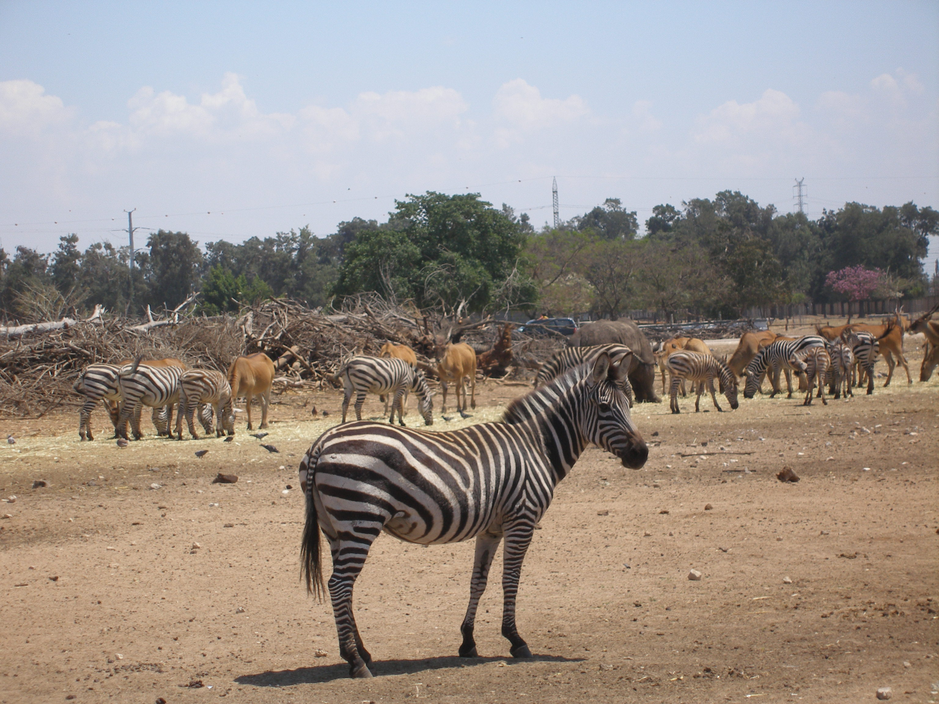 "safari" zooTaken in the Zoological Center of Tel Aviv-Ramat Gan, Israel